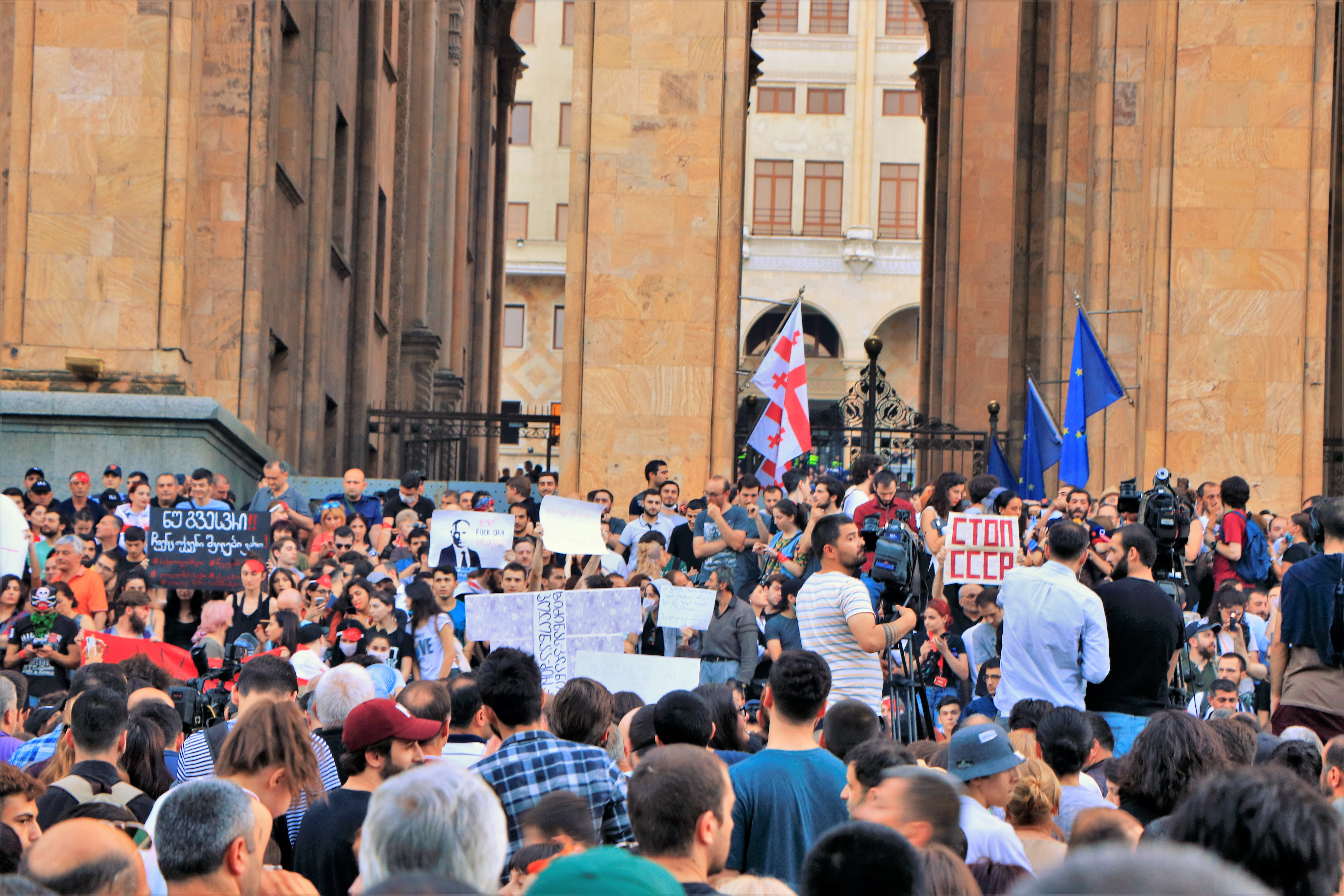 Gavrilov's Night Day 2 - Central protest. Protesters are holding signs "don't shoot" and "stop USSR".